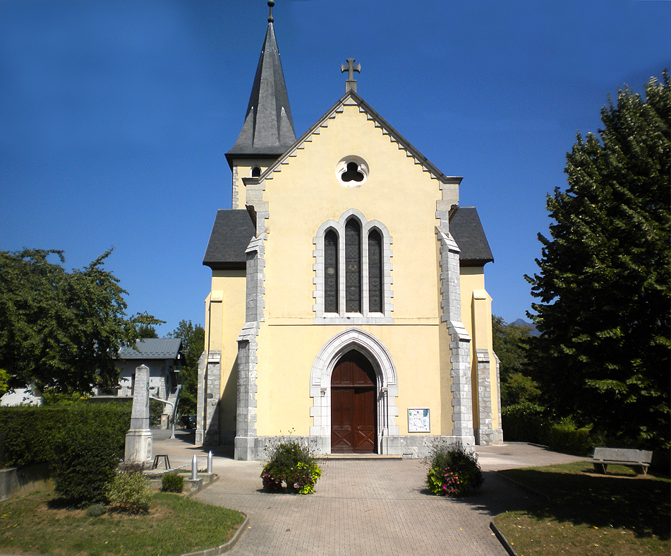 Church of Frontenex (Savoy)